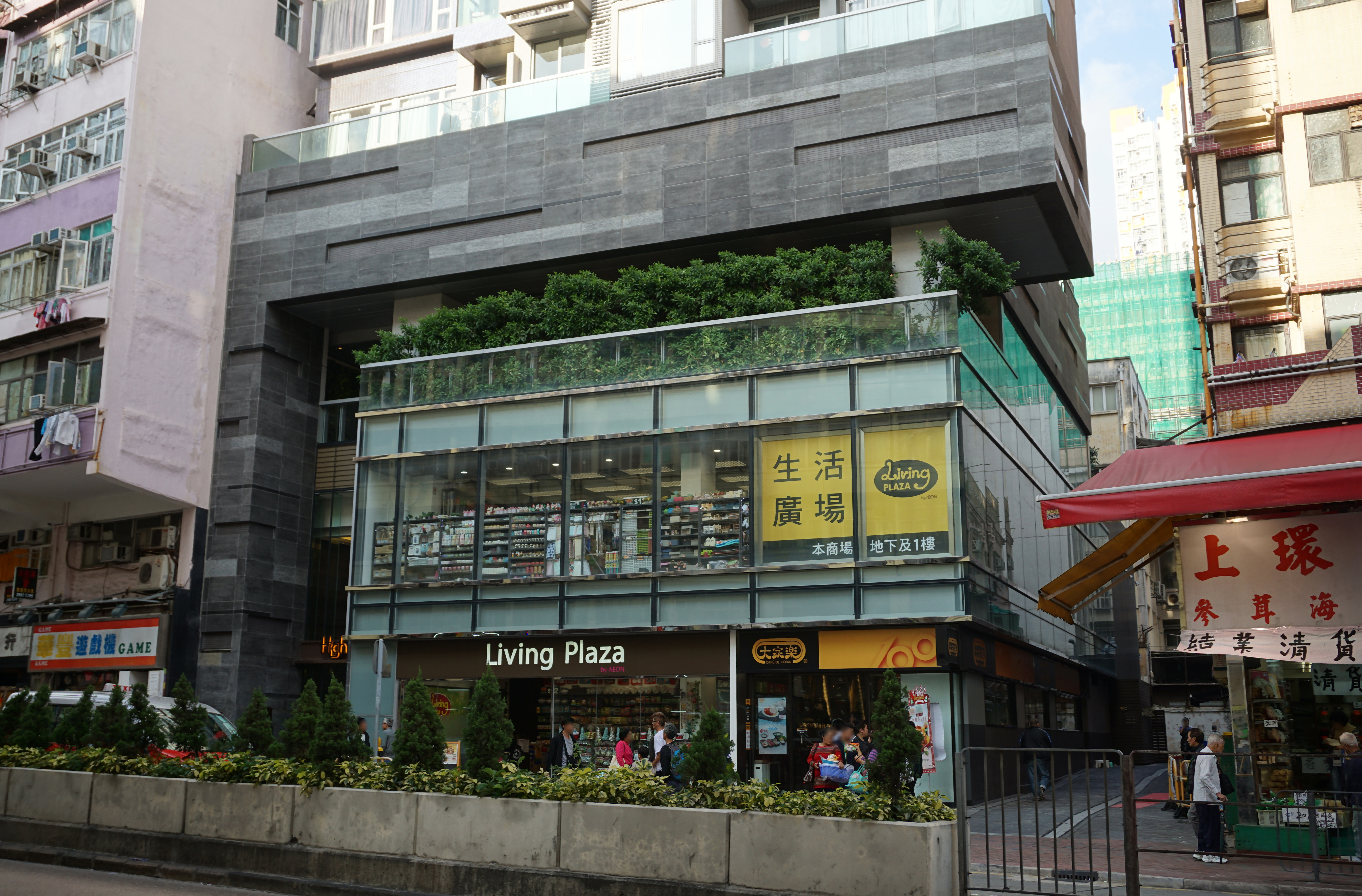 High Point in Sham Shui Po, Hong Kong.